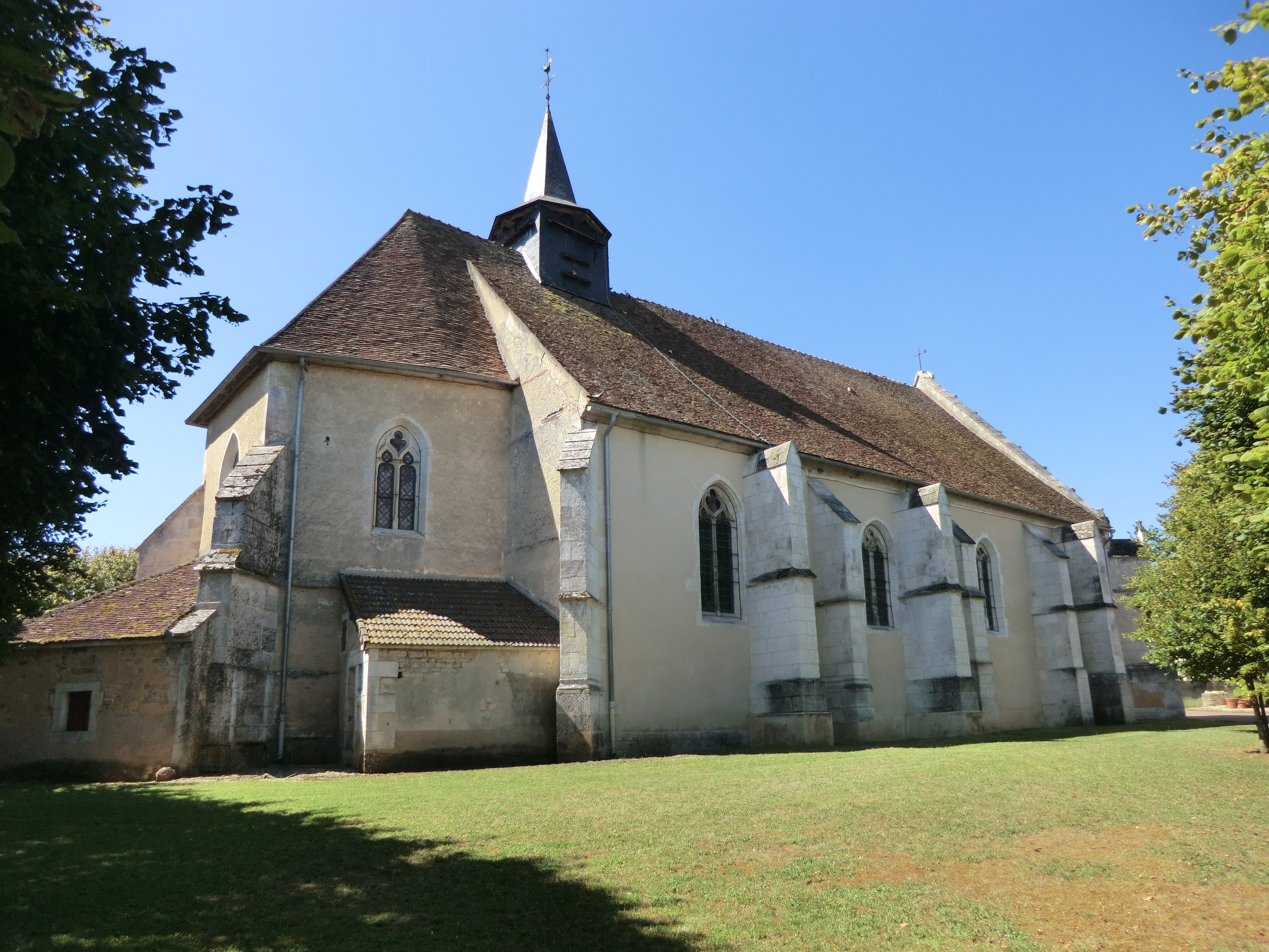 Saints Peter and Paul church of Sougères-en-Puisaye.